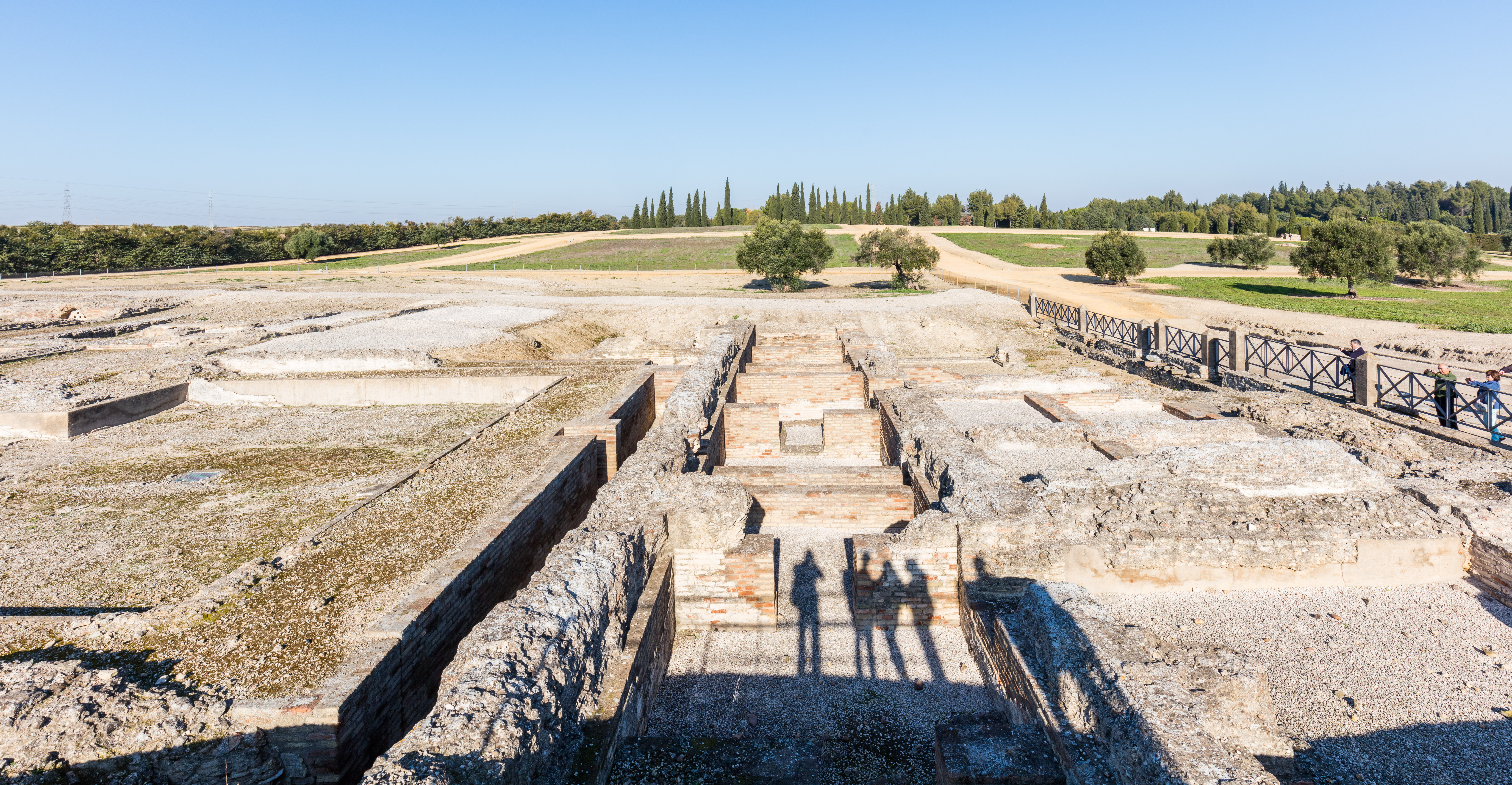 Major baths, ancient roman city of Itálica, Santiponce, Seville, Spain